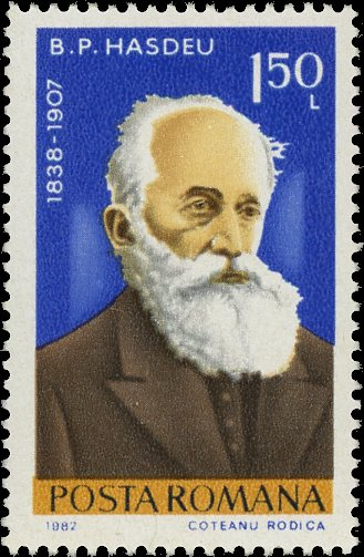 Bogdan Petriceicu Hasdeu